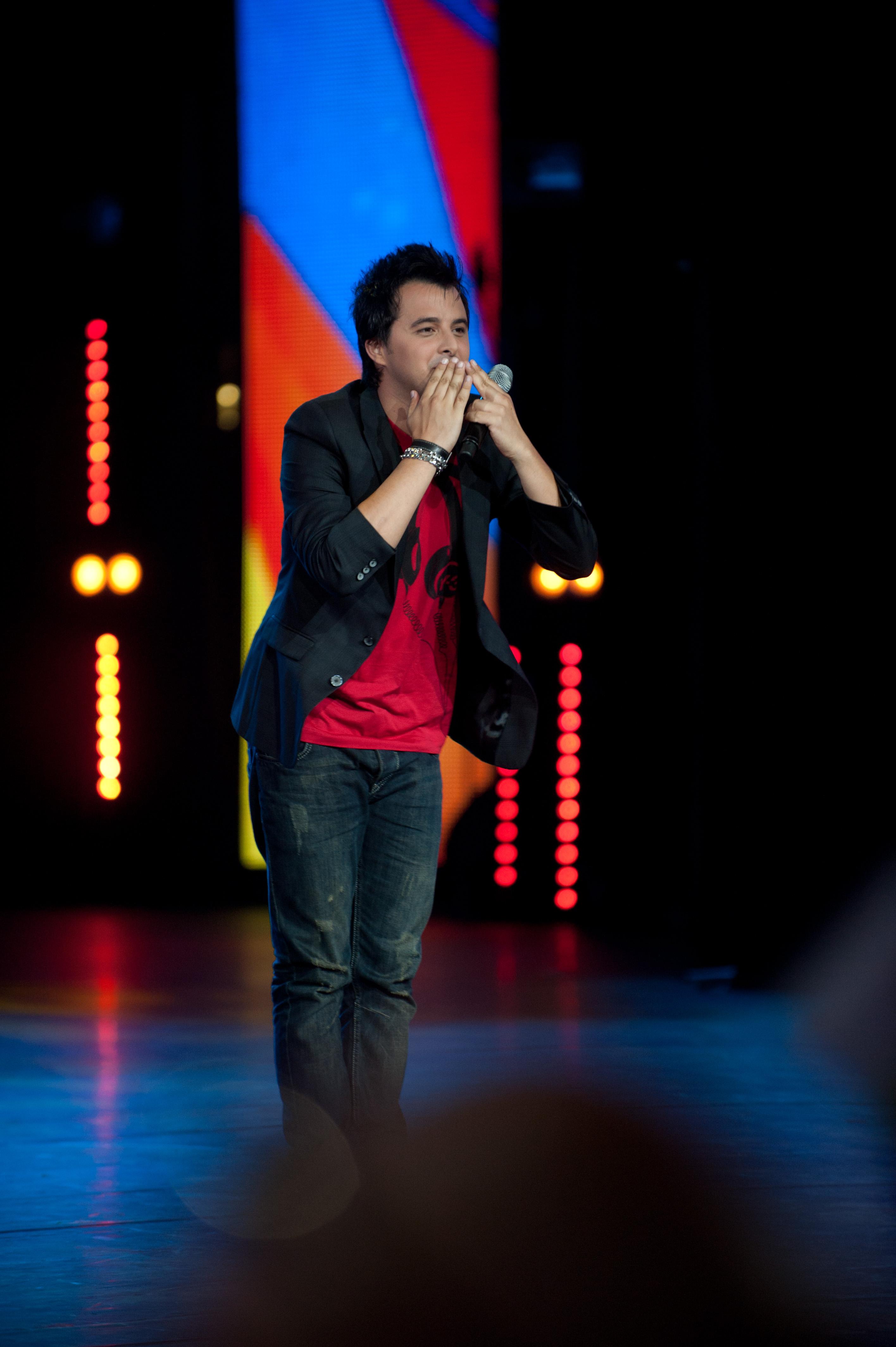 Festival on stage performance